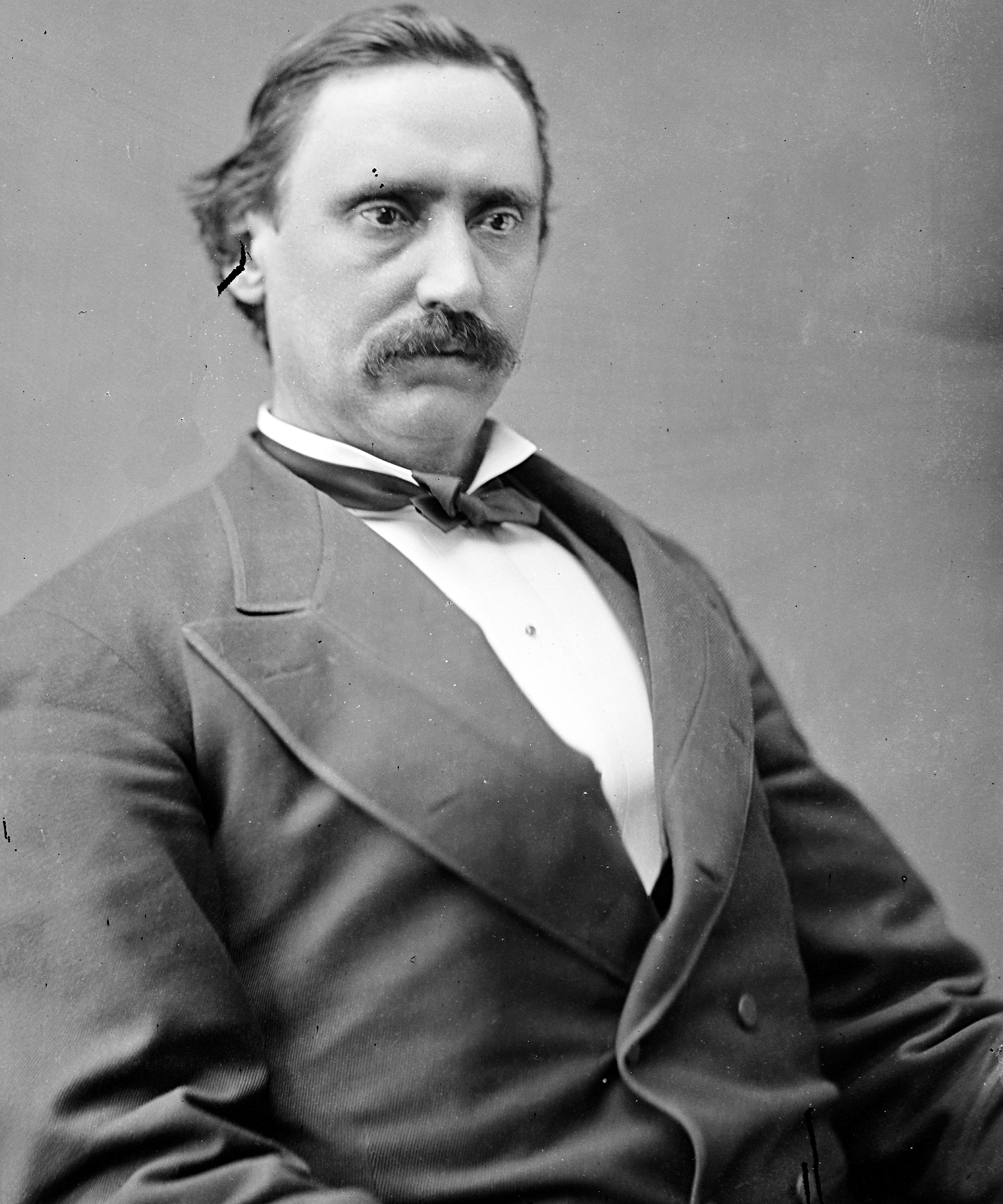 William Mutchler, US Representative from Pennsylvania